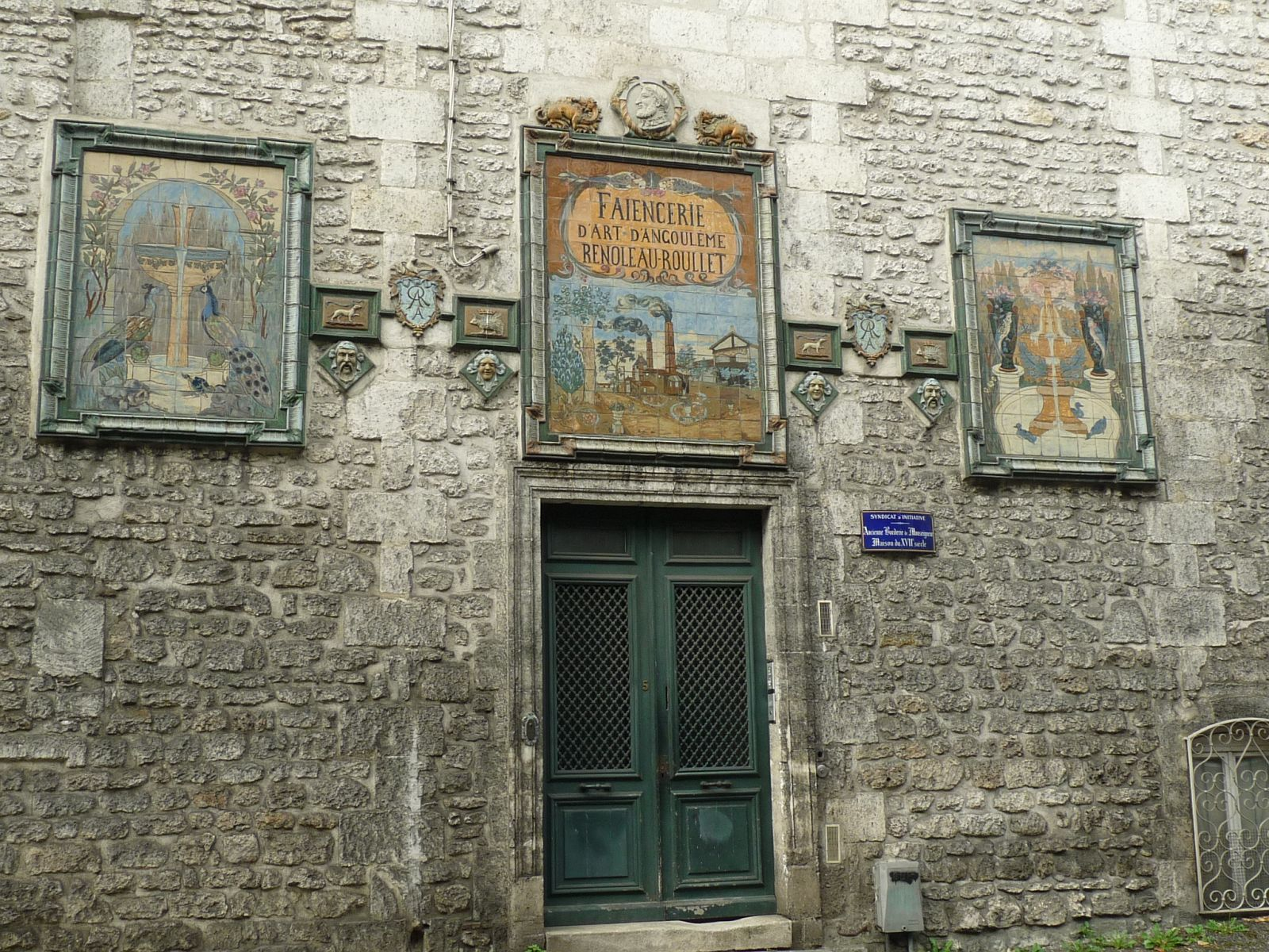 Old factory for Renoleau ceramics, Angoulême (16), SW France